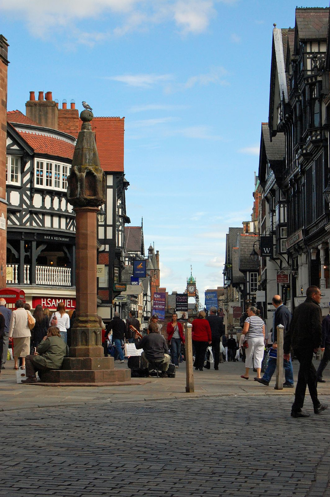 The Chester cross with, in the distance, the Eastgate clock.